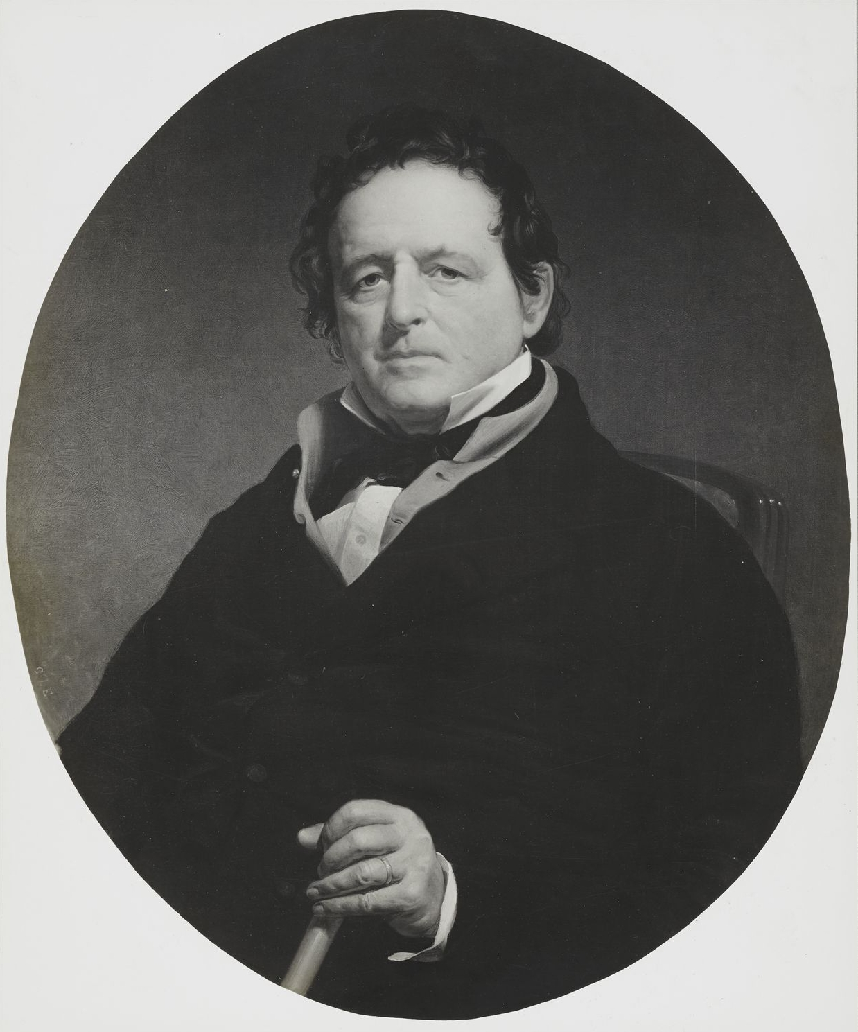 Captain Warren Delano by Charles Loring Elliott, National Gallery of Art, Washington, D.C.